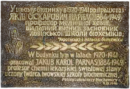 Jakub Parnas table on Medical University in Lwów